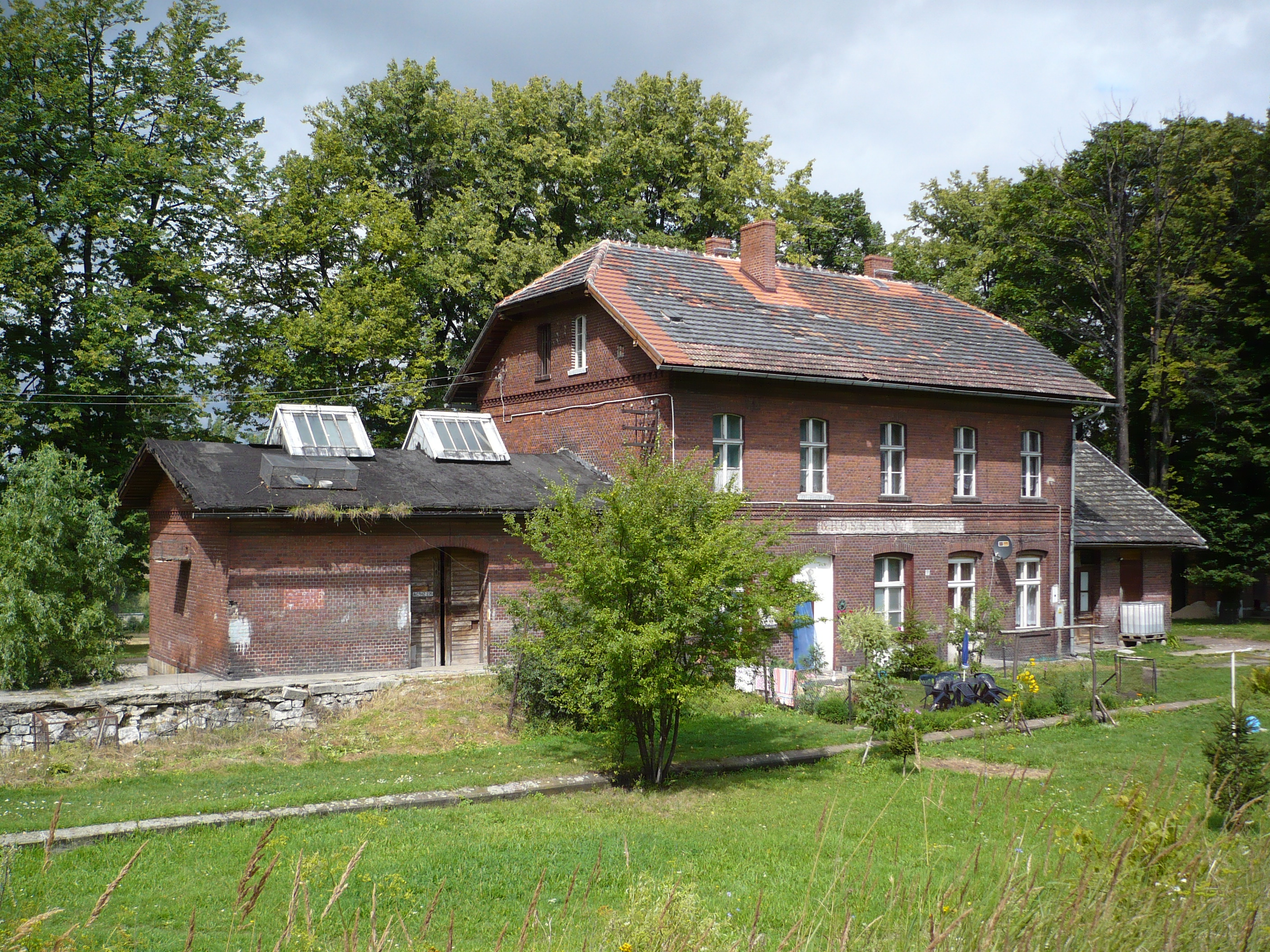 Abolished railway station Sławniowice (former Gross Kunzendorf)